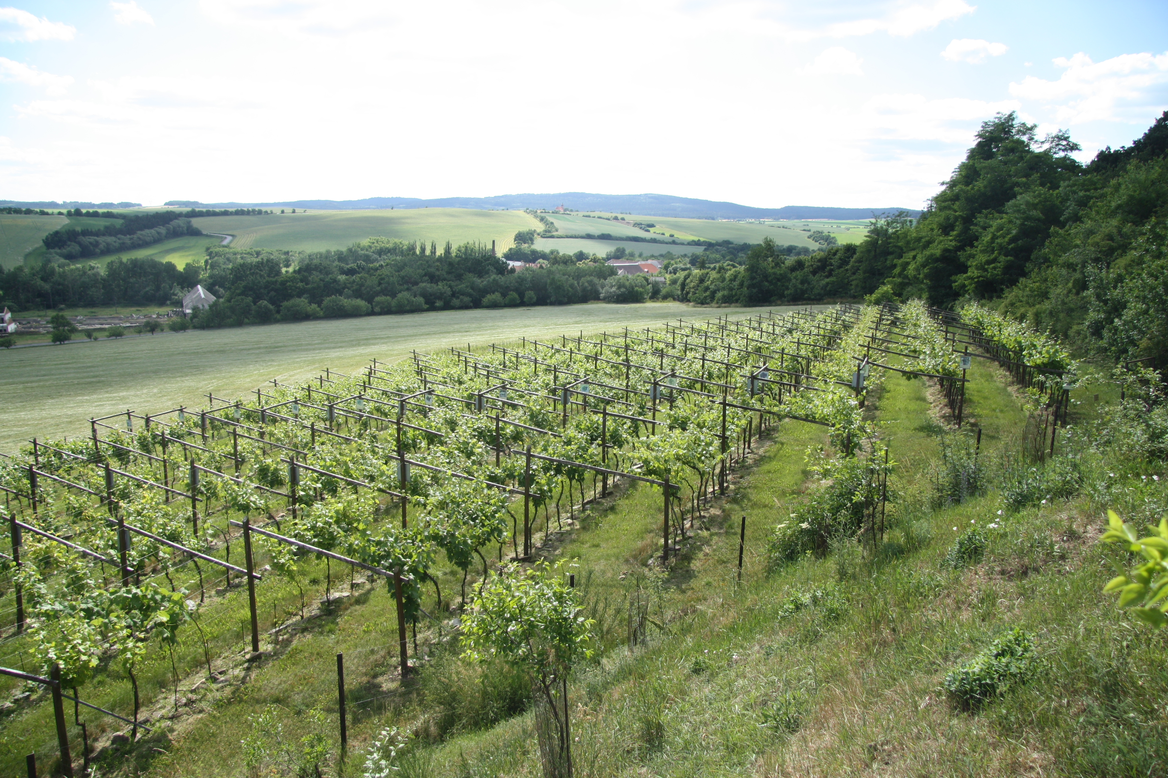 Vineyard Sádek in Kojetice, Třebíč District.